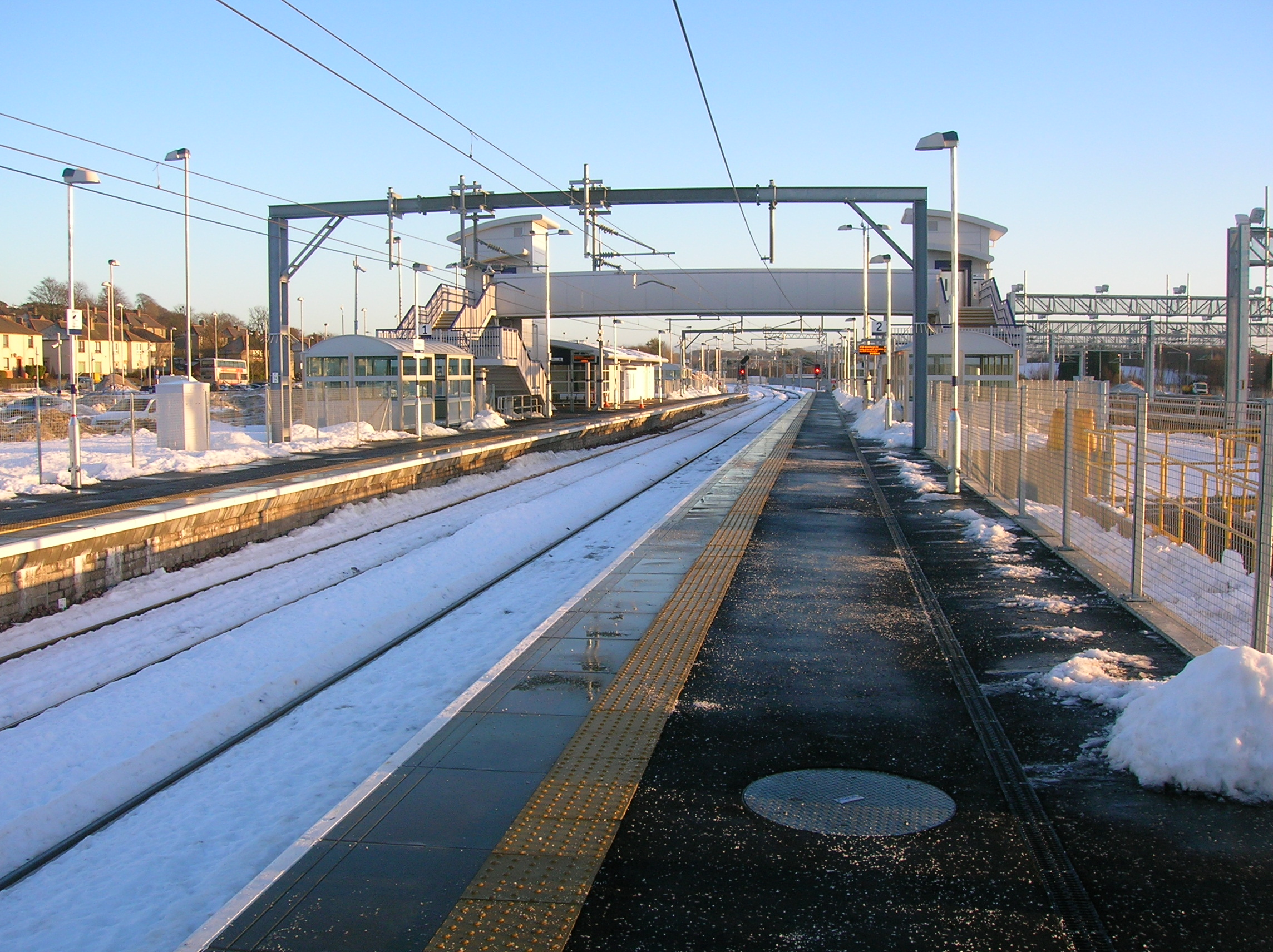 Bathgate railway station looking East. First day of rail services between Airdrie and Bathgate. Scotland.